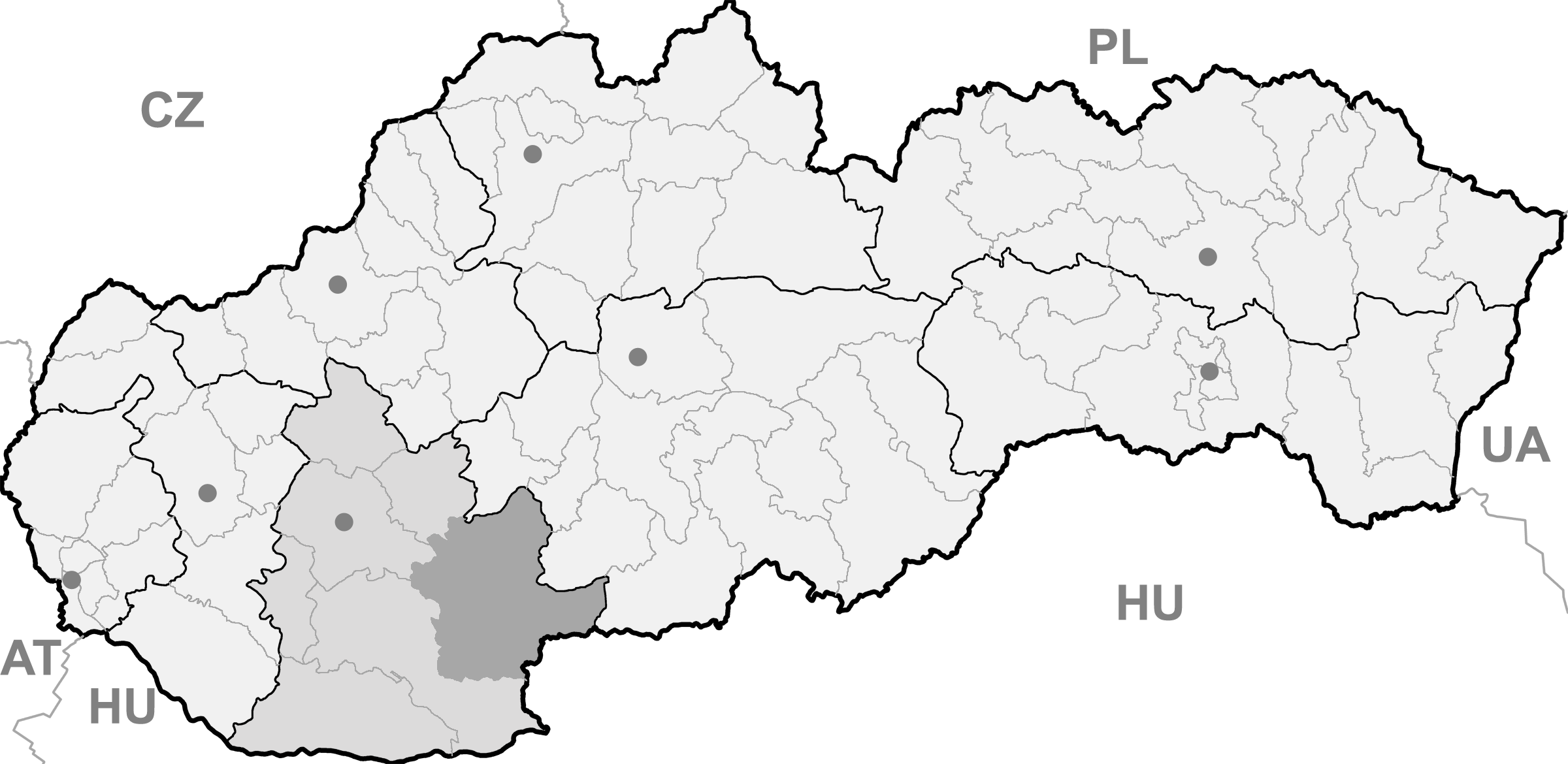 Map of Slovakia, Levice district and Nitra region highlighted